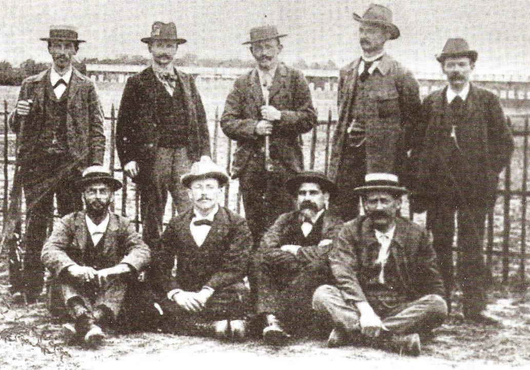 Swiss Shooting Team at the 1900 Olympic Games photography, adapted reproduction, no restrictions on use